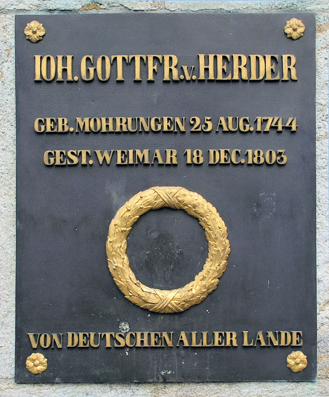 Memorial plaque, Johann Gottfried Herder, Herderplatz, Weimar, Germany